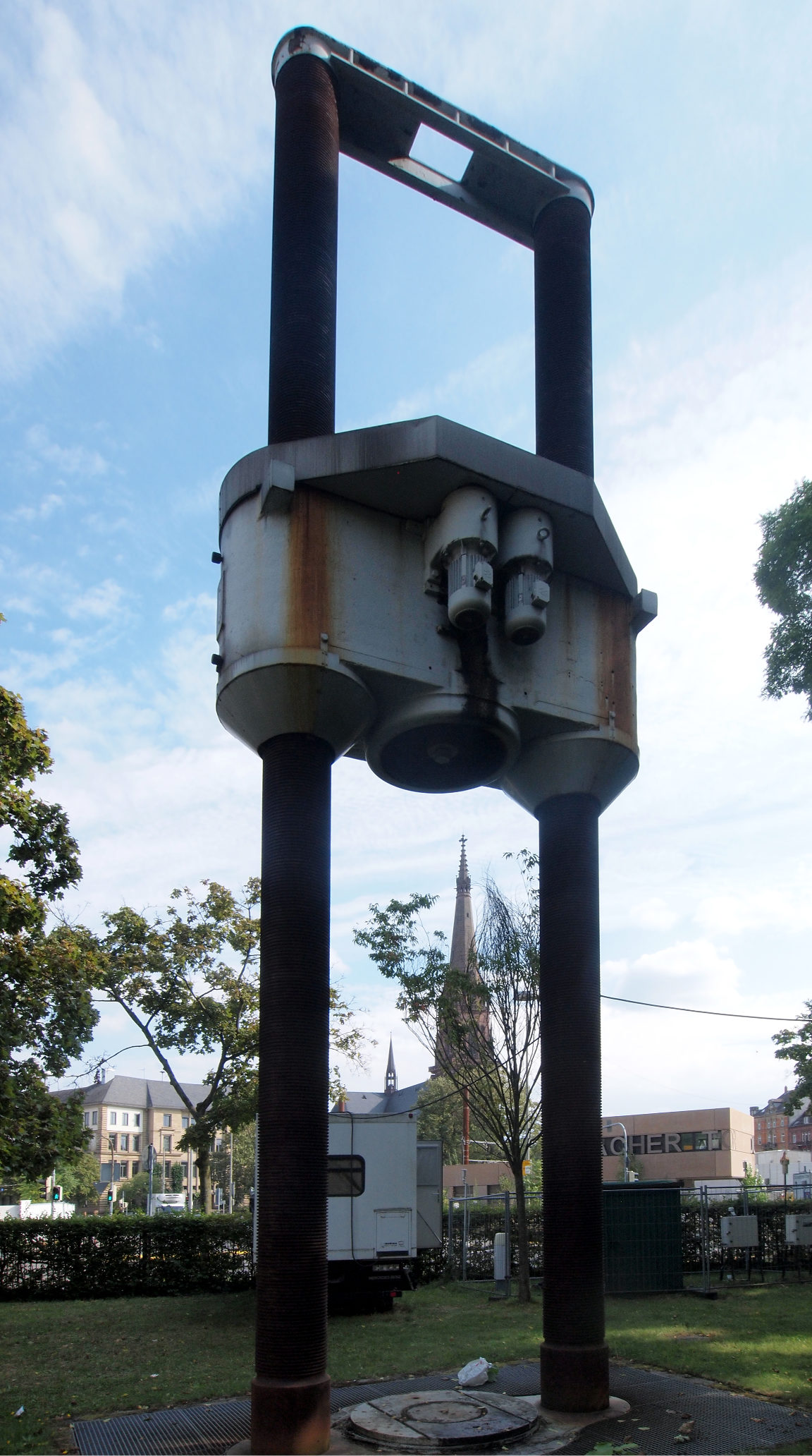 2 monuments: testing press and St.Bernhard church